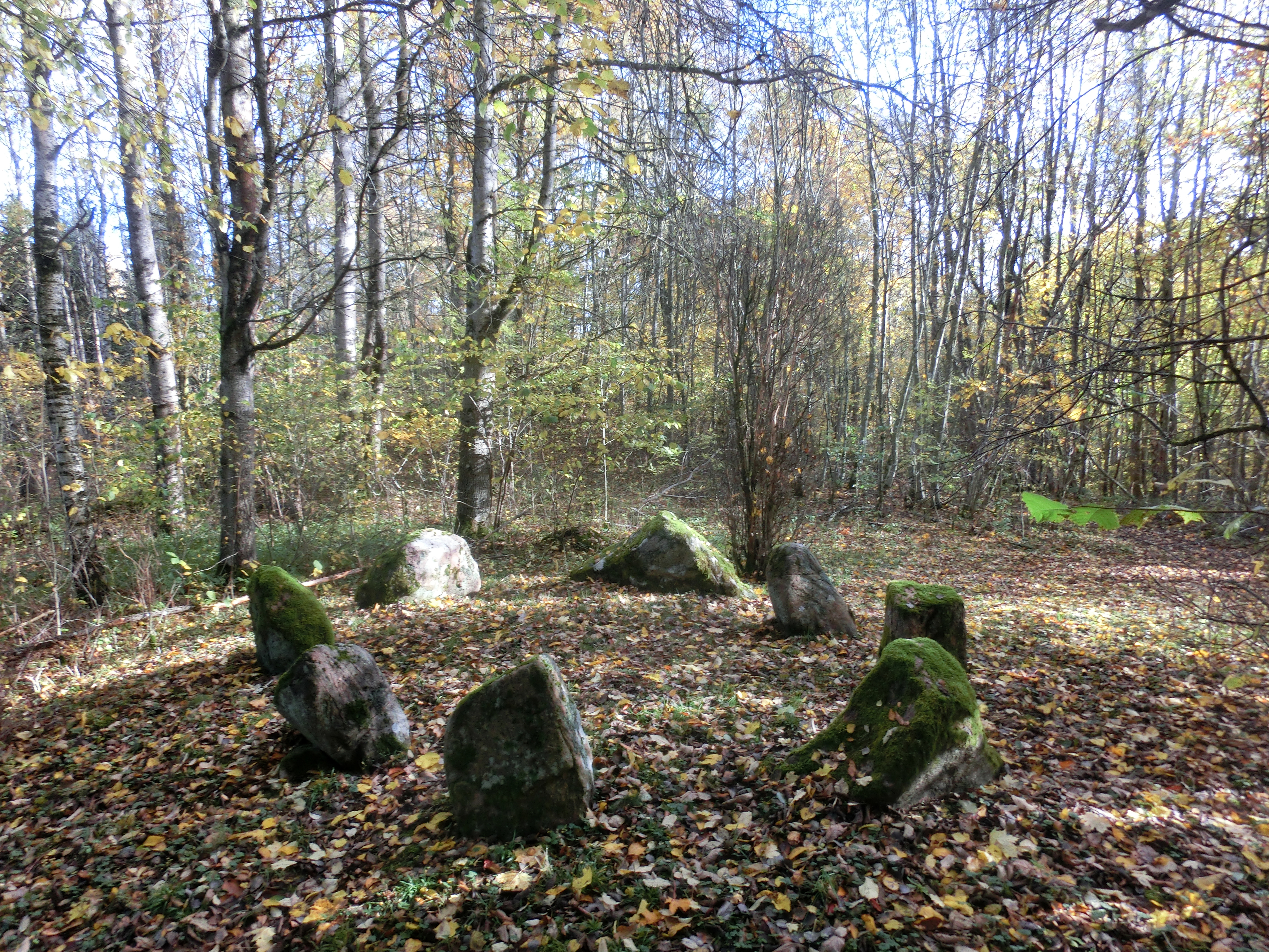 The "judge circle" (stone circle) (RAÄ-nr Sörby 48:1) at "Lellingens" (the former cottage Halleberg), Väsmestorp, Sörby parish, Vilske hundred, Falköping municipality, former Skaraborg County, the province of Västergötland, Västra Götaland County, Sweden. The stone circle is seen from the west in October 2017.